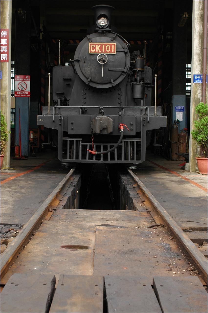 Taiwan Railway Administration Steam Locomotive CK101 at Changhua Roundhouse.